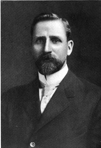 Clarence Ussher (1870-1955) was a physician and an American missionary in the Van region during the Armenian Genocide, which he reported that 55,000 Armenians had been killed. In 1917, Ussher published a memoir regarding his experience in Van, called An American Physician in Turkey: A Narrative of Adventures in Peace and War.